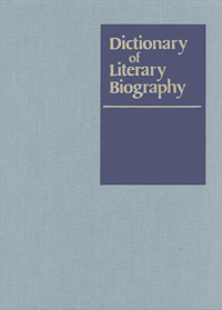 Generic cover from the Dictionary of Literary Biography series